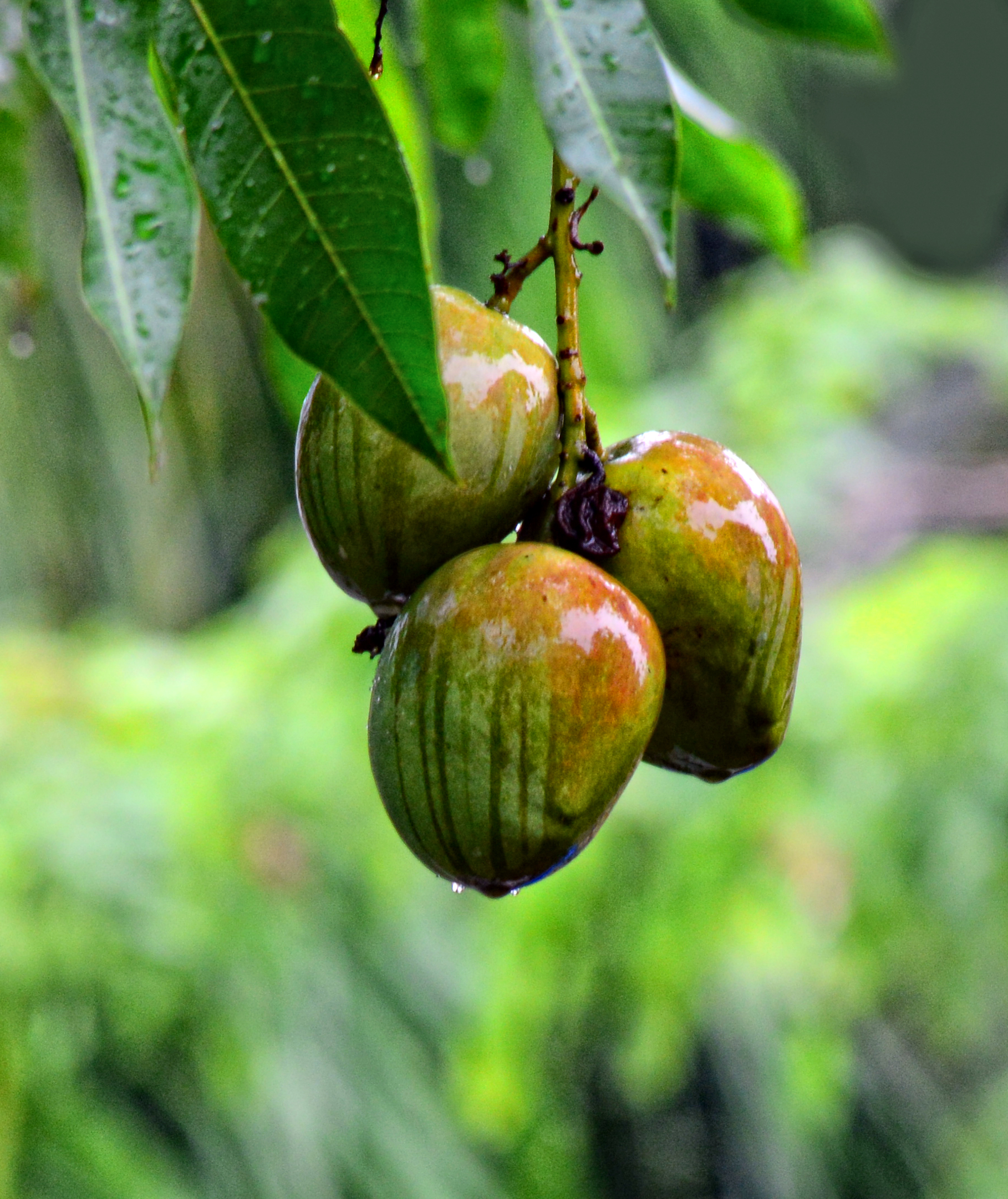 Mangoes